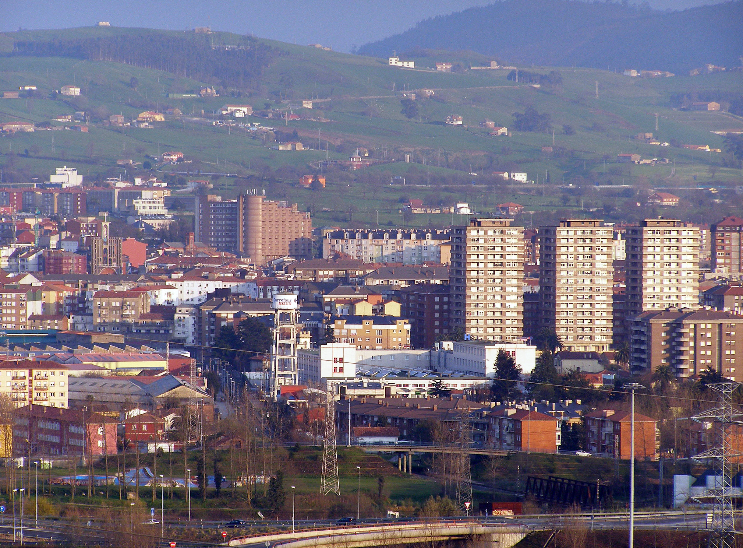 Torrelavega city centre from Sierrallana Hospital